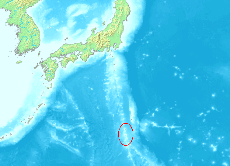 Location of Volcano Islands (Kazan retto), Japan